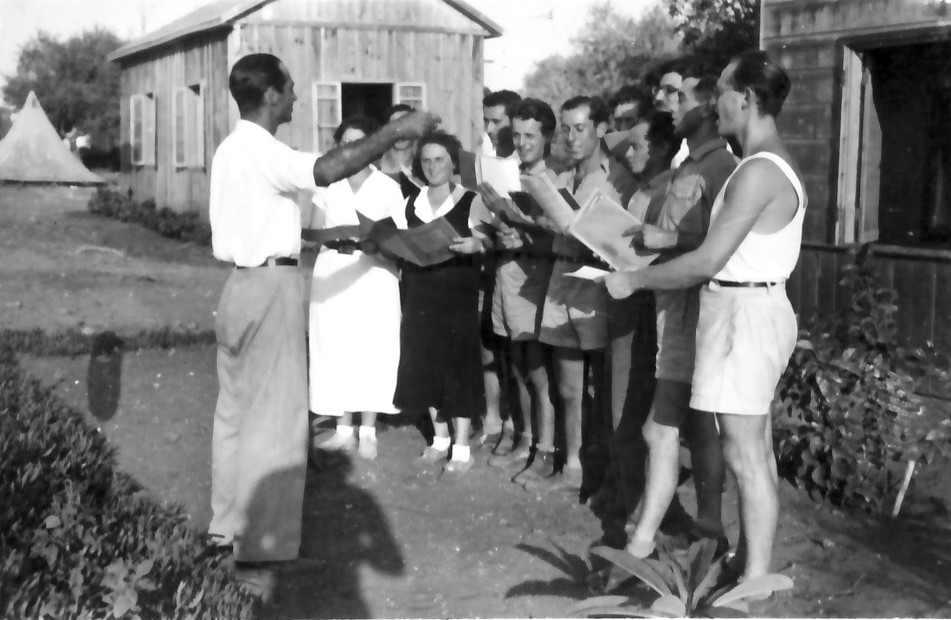 Gan-Shmuel - learn to sing 1945, Entertainment